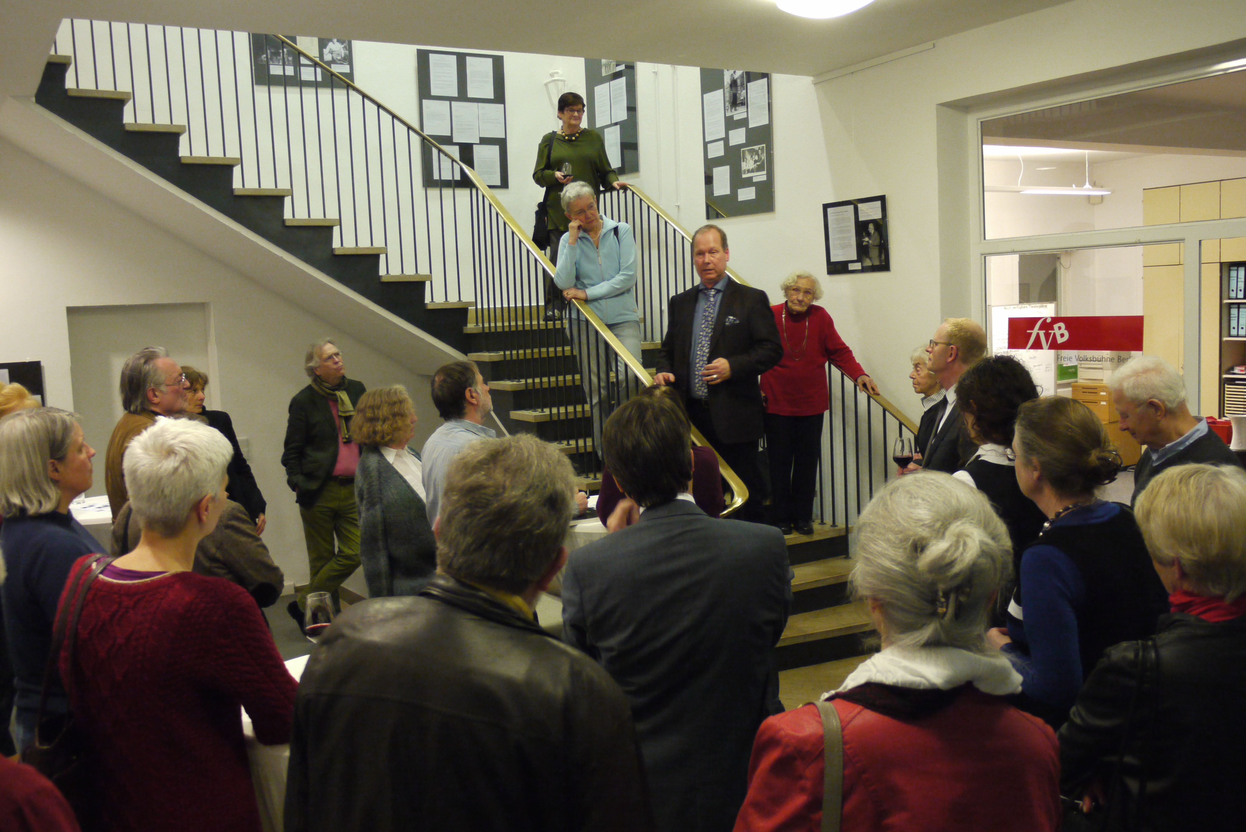 Opening of the exhibition „Twice: Erwin Piscator and the Volksbühne“ on the occasion of the 50th anniversary of the death of the former director of the Theatre of the Freie Volksbühne. Freie Volksbühne Berlin e.V., Ruhrstraße 6, Berlin, March 21, 2016. Curator Frank-Rüdiger Berger introduces to the exhibition in the foyer of the Siegfried Nestriepke House.